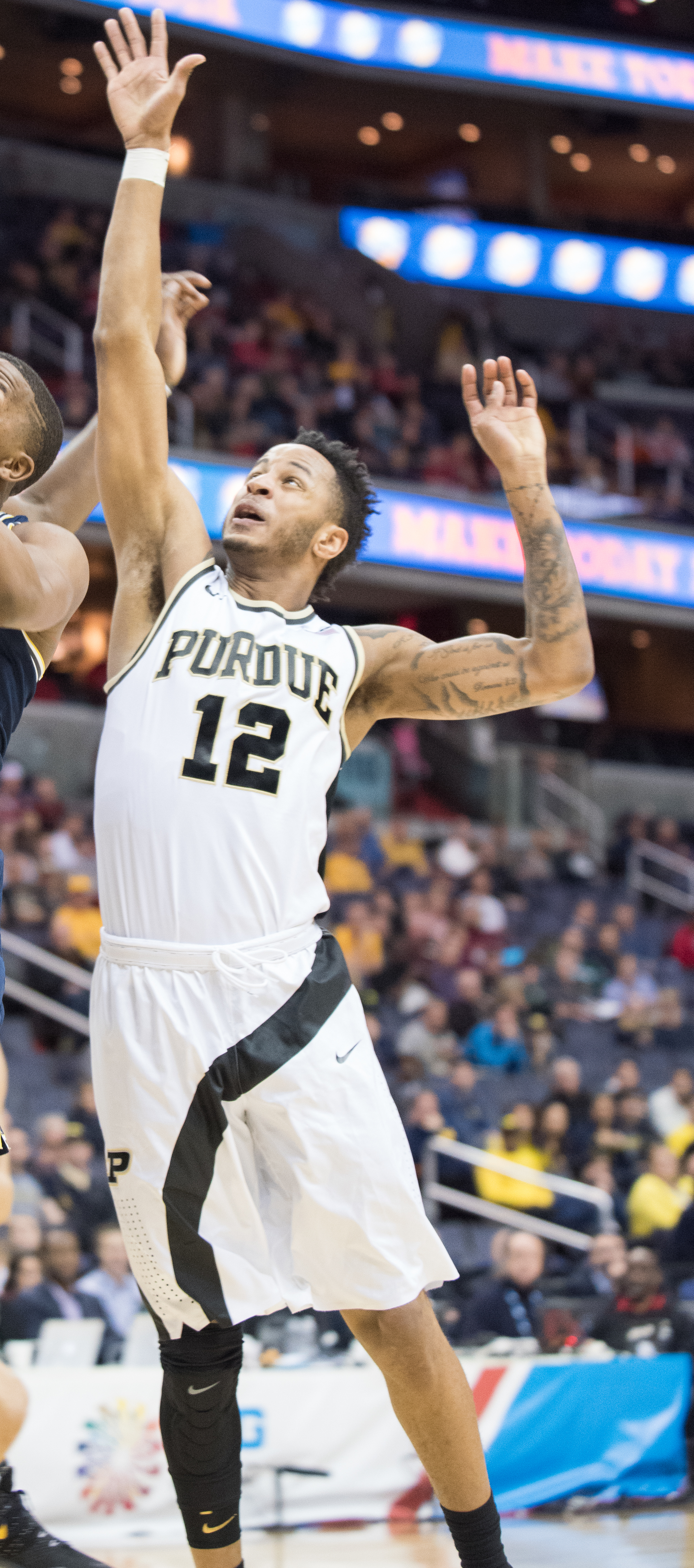 Vincent Edwards of Purdue